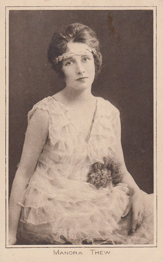 Postcard from 1916 of the actress Manora Thew (1891-1987)